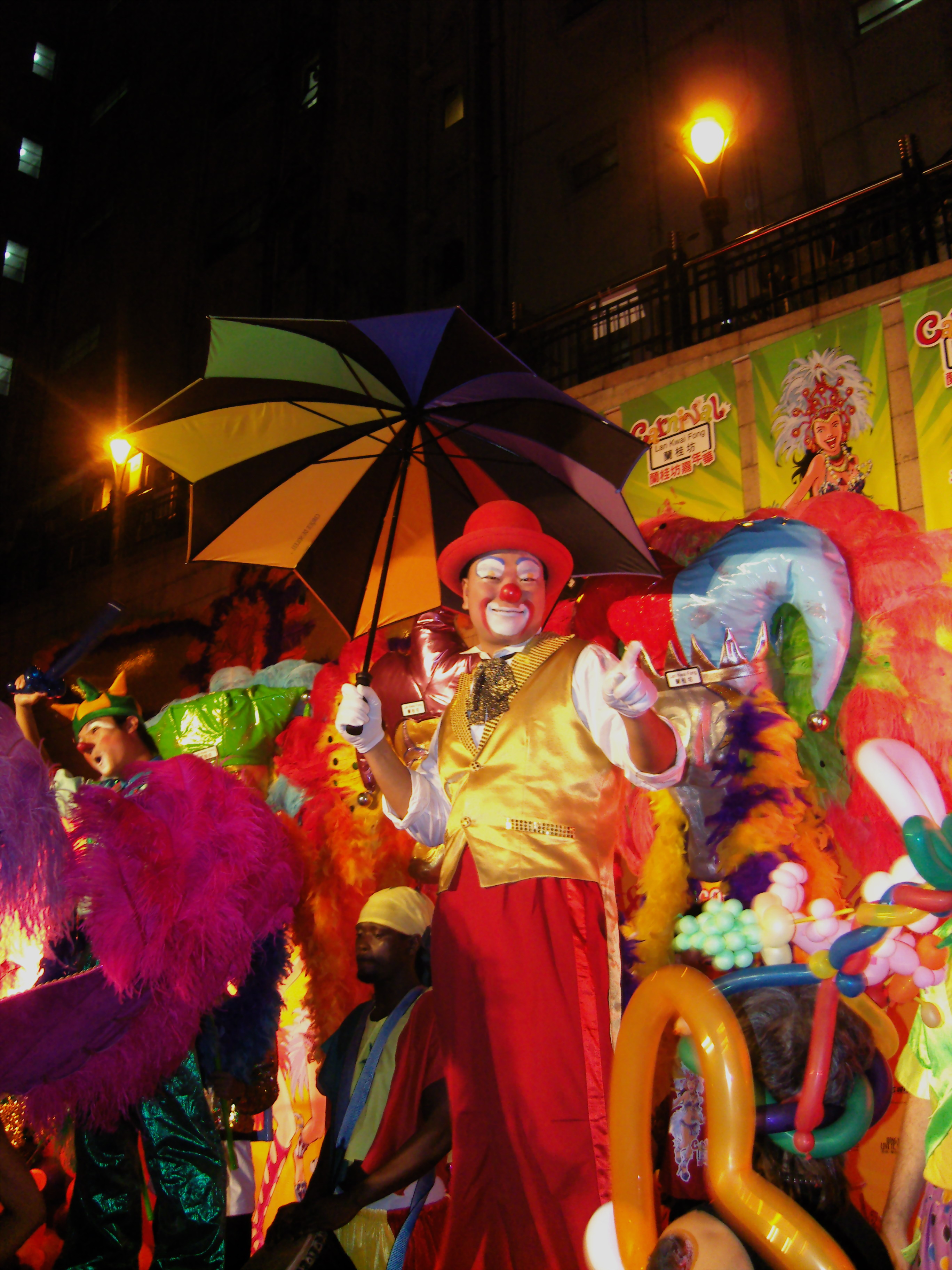 Lan Kwai Fong Carnival 2007 at Lan Kwai Fong, Central, Hong Kong.